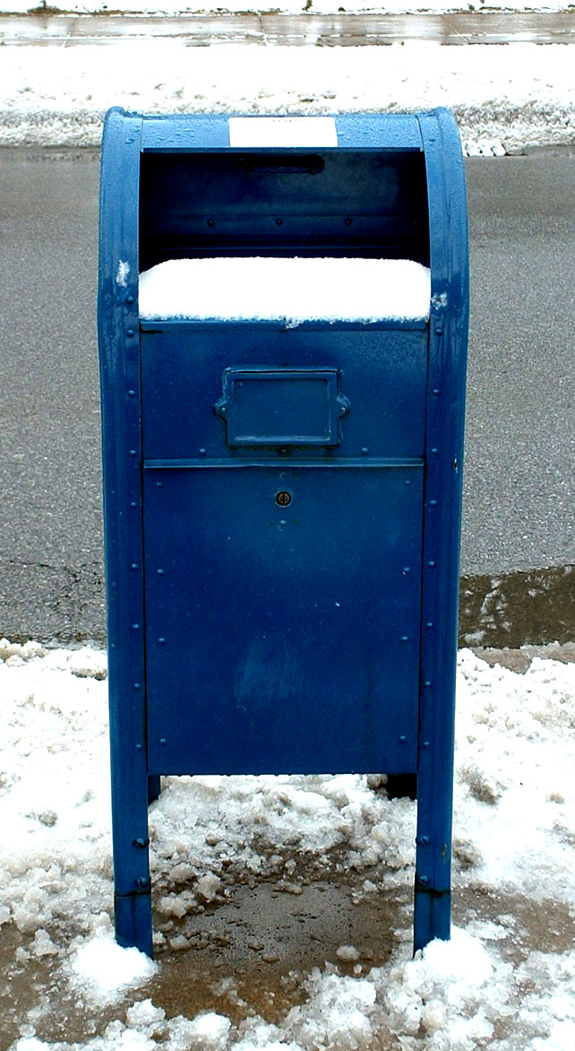 Mailbox, Pennstate statecollege. With snow.